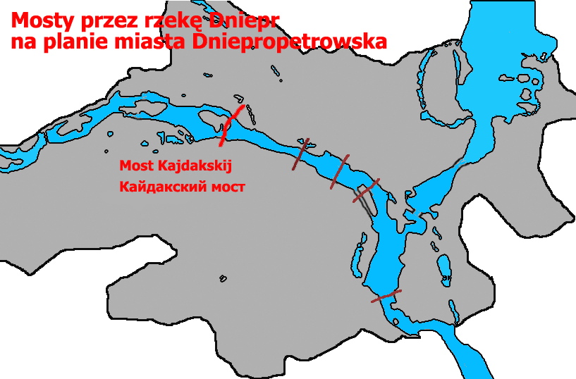 Kaydackyj bridge in Dnipropetrowsk